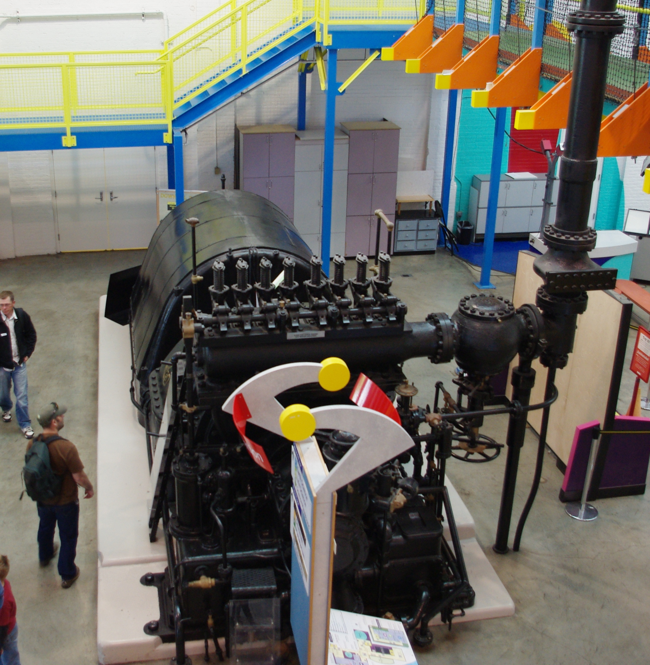 Old turbine inside Oregon Museum of Science and Industry.